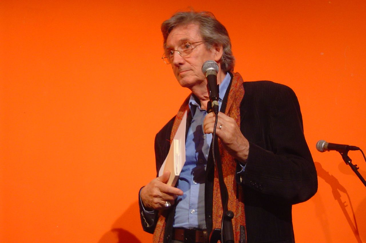 French poet Lionel Ray at 2007 Czech-French Poetry Festival in Prague.